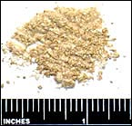 Example of cheese, seized by the U.S. Drug Enforcement AdministrationSource: U.S. government agency (DEA: Drug Enforcement Agency).